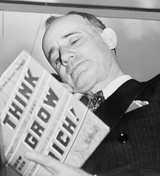 American self-help writer Napoleon Hill (1883-1970) holding his book, "Think and Grow Rich".